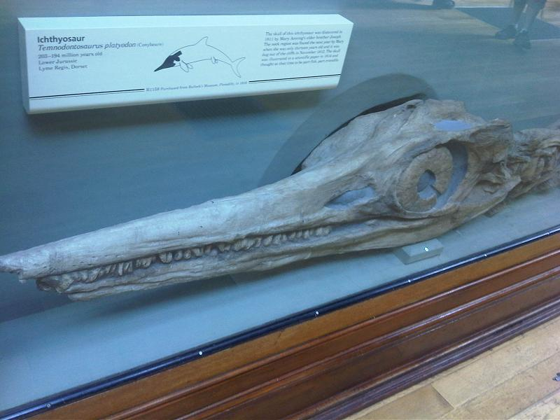 The head of the Temnodontosaurus platyodon reconstruction at the Natural History Museum in London, England.